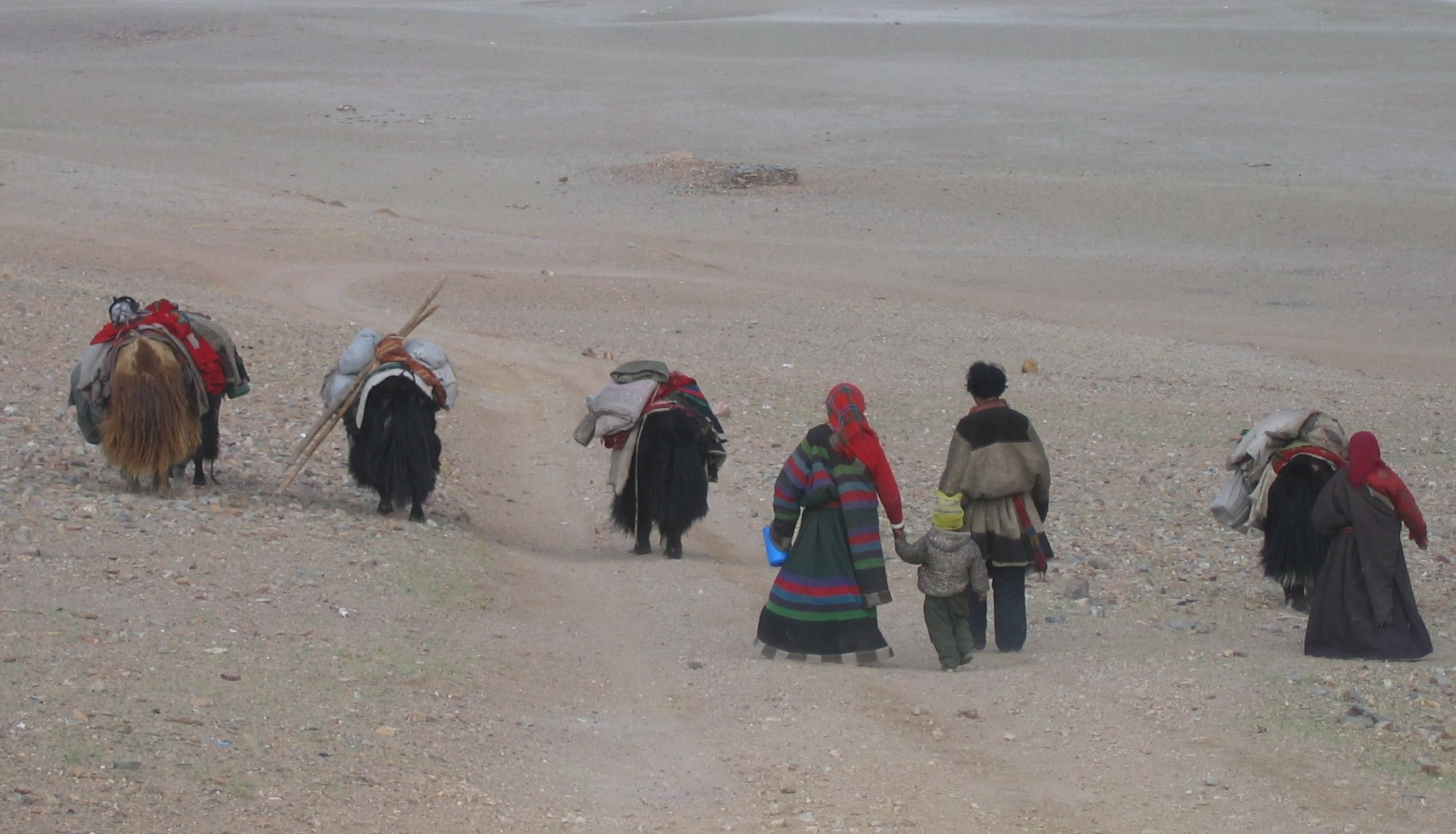 Changpas nomadic people - Changtang - Tibet